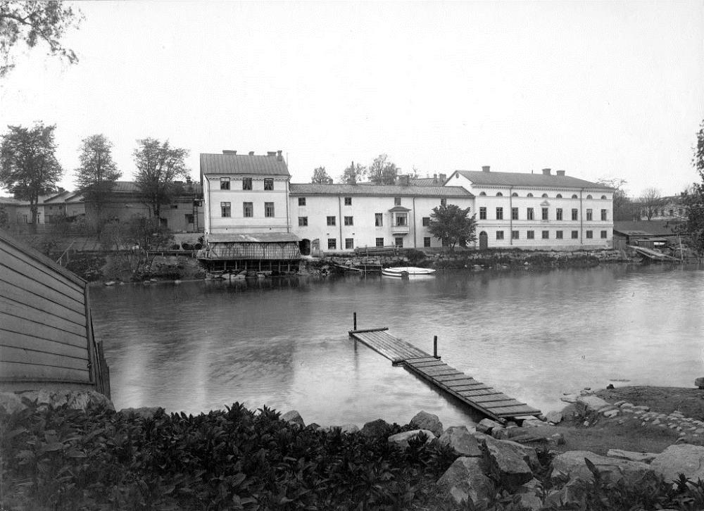 Turku, Finland.